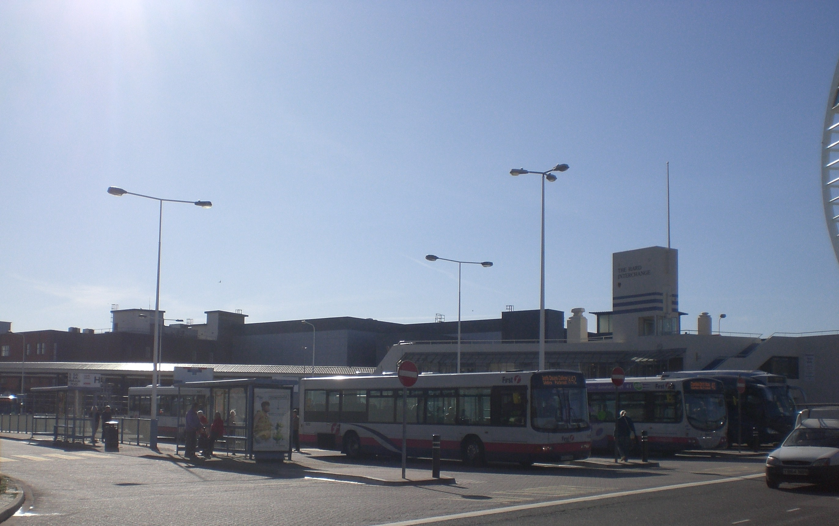 The Hard Interchange, a bus station on the seafront close to the harbour in Portsmouth, Hampshire.